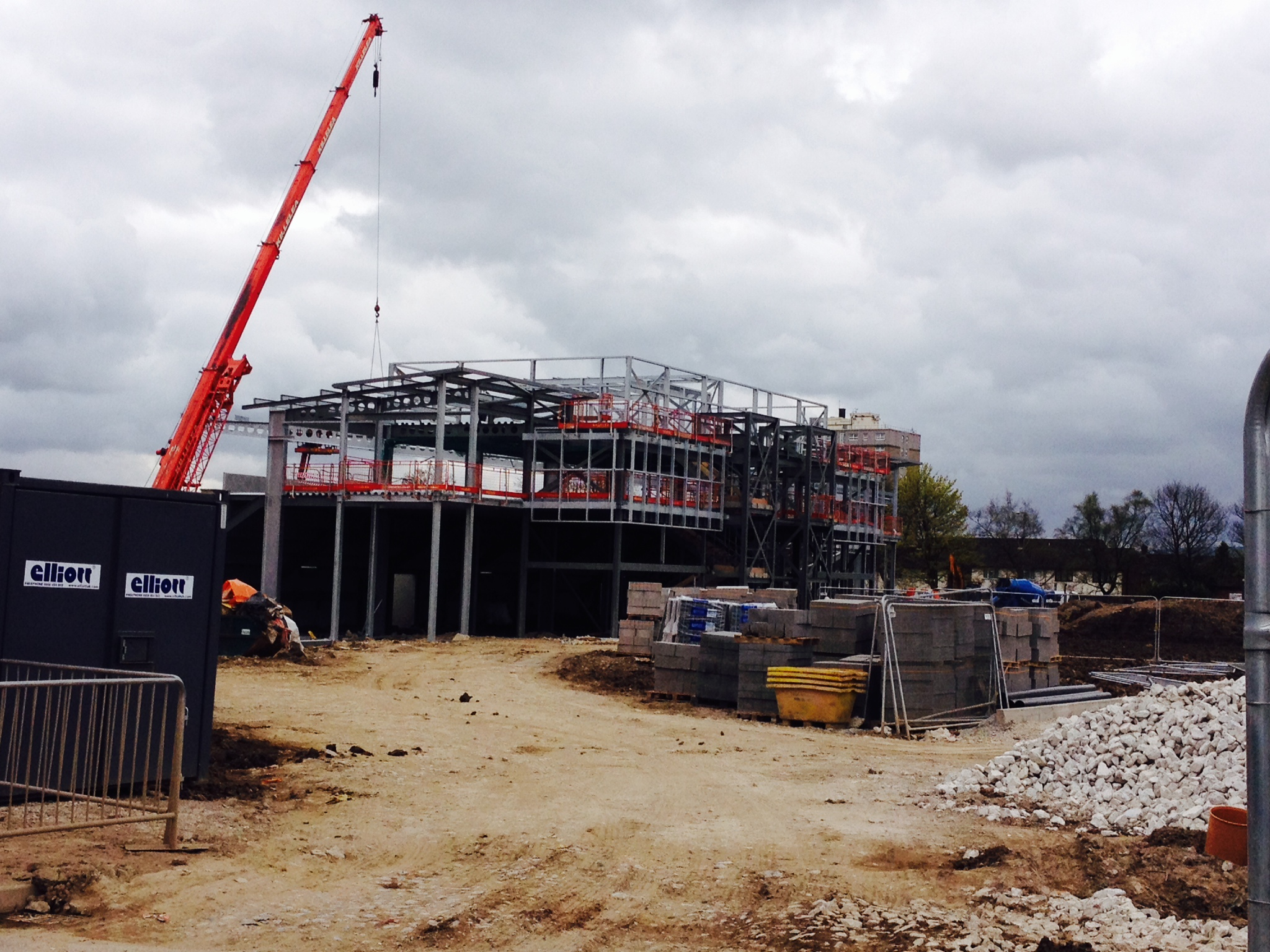 Broadhurst Park – Main Stand under construction.